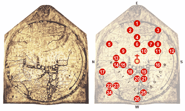 File:Hereford Mappa Mundi 1300.jpg, edited, some details explained. 0 - At the center of the map: Jerusalem, above it: the crucifix. 1 - The Paradise, surrounded by a wall and a ring of fire. 2 - The Ganges and its delta. 3 - The fabulous Island of Taphana, sometimes (possibly mis-)interpreted as Sri Lanka or Sumatra. 4 - Rivers Indus and Tigris. 5 - The Caspian Sea, and the land of Gog and Magog 6 - Babylon and the Euphrat. 7 - The Persian Gulf. 8 - The Red Sea (painted in Red). 9 - Noah's Ark. 10 - The Dead Sea, Sodom and Gomorrha, with River Jordan, coming from Sea of Galiliee; above: Lot's wife. 11 - Egypt with the River Nile. 12 - River Nile [?], or possibly an allusion to the equatorial Ocean; far outside: a land of freaks, possibly the Antipodes. 13 - The Azov Sea with Rivers Don and Dnjepr; above: the Golden Fleece. 14 - Constantinoples; left of it the Danube's delta. 15 - The Aegean Sea. 16 - Oversized delta of the Nile with Alexandria's Lighthouse. 17 - A person skiing [?]. 18 - Greece with Mt. Olymp, Athens and Corinth 19 - Misplaced Crete with Minotaur's circular labyrinth. 20 - The Adriatic Sea; Italy with Rome, honored by a popular heptameter: Roma caput mundi tenet orbis frena rotundi [Rome, the head, holds the reins of the world]. 21 - Sicily, and Carthage, opposing Rome, right of it. 22 - Scotland. 23 - England. 24 - Ireland. 25 - The Baleares. 26 - The Strait of Gibraltar (the Pillars of Hercules).